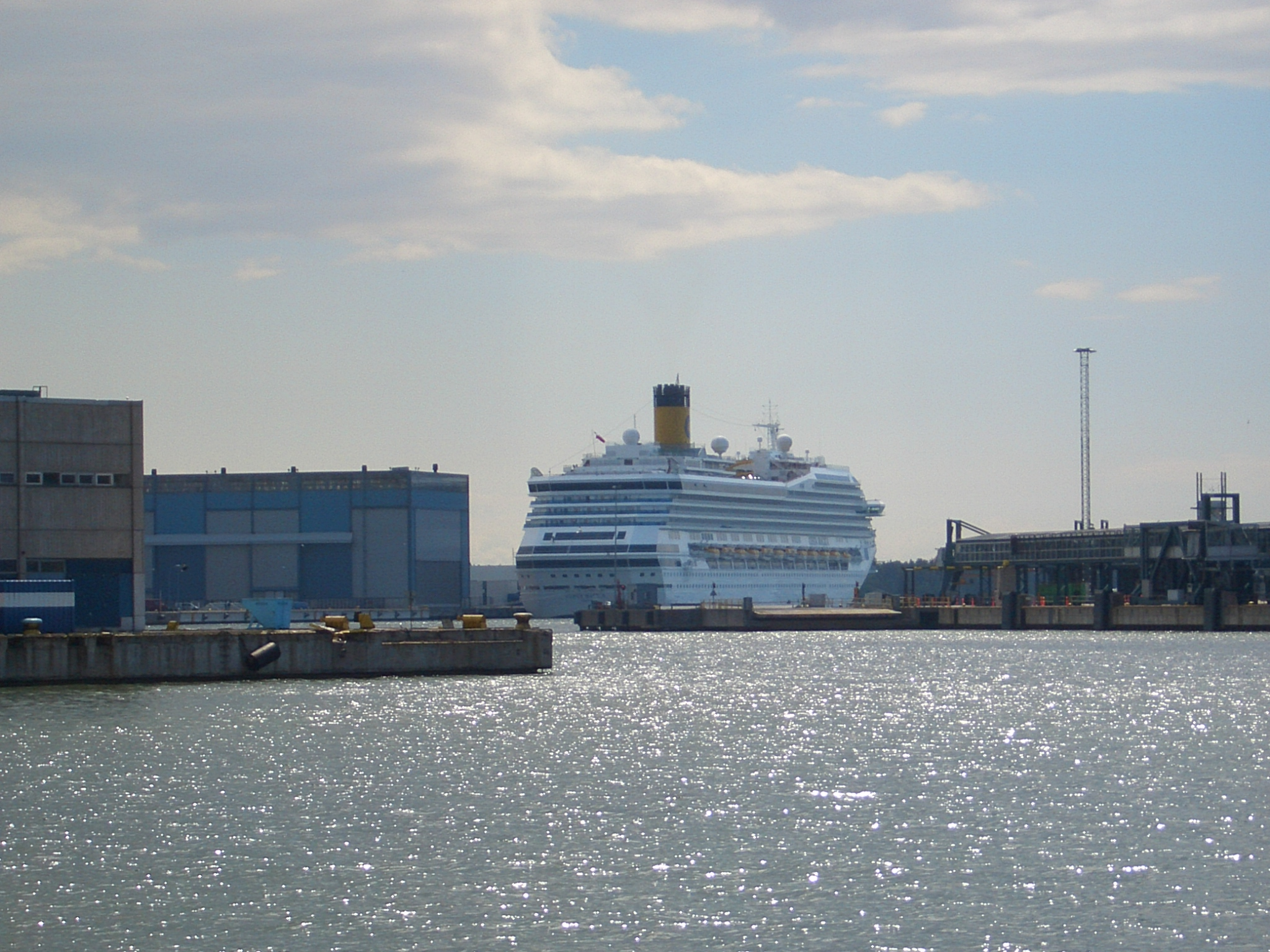 The cruise liner Costa Magica in the Port of Helsinki, Finland